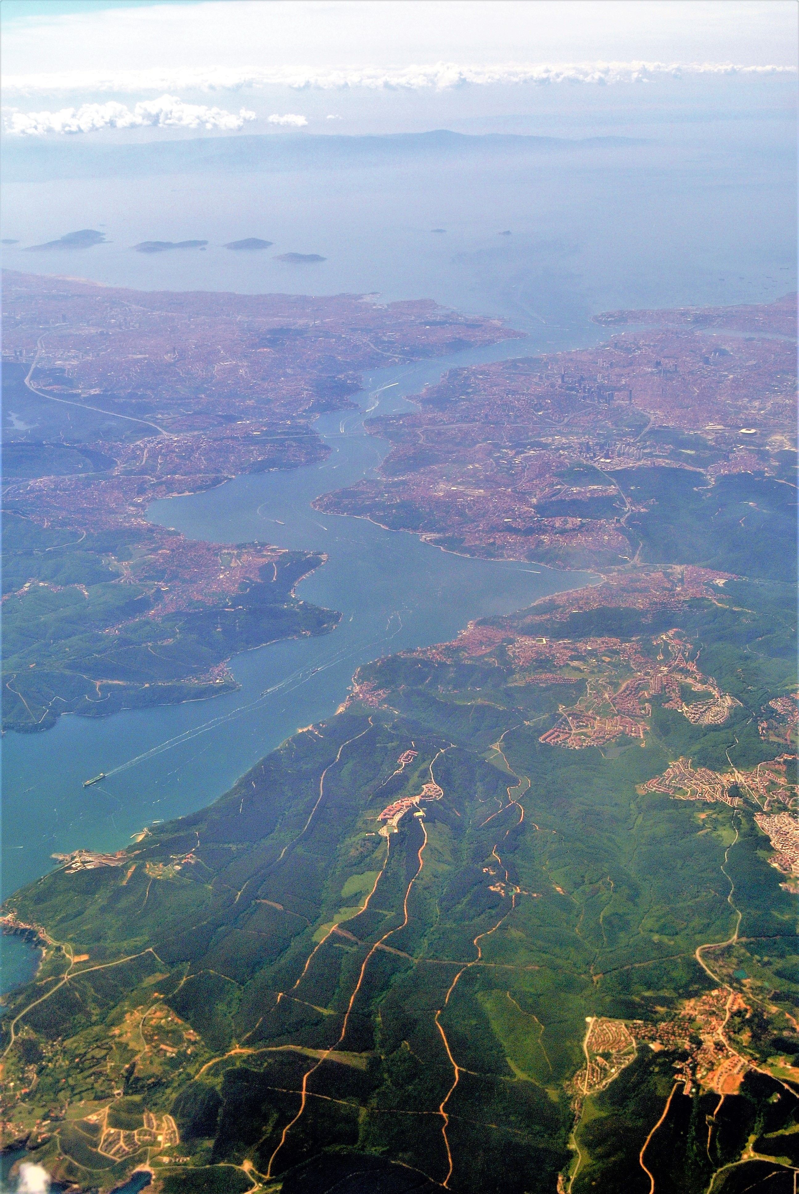 Aerial view of the Bosphorus from north (bottom) to south (top), Istanbul at the southern end.